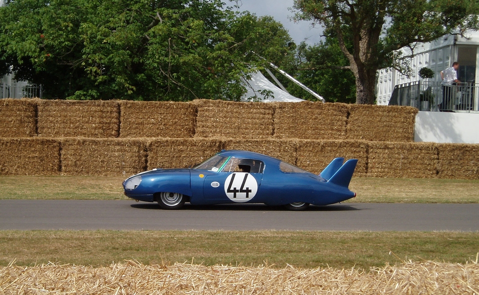 1964 CD-Panhard LM64 (also known as CD 3) built for the 24 Heures du Mans 1964 at Goodwood Festival of Speed 2006